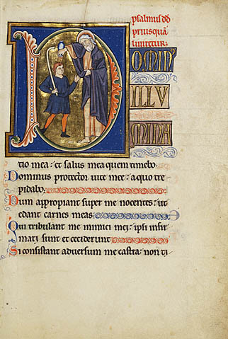 Page from a French Psalter, John Paul Getty Museum, Los Angeles, Ms 66